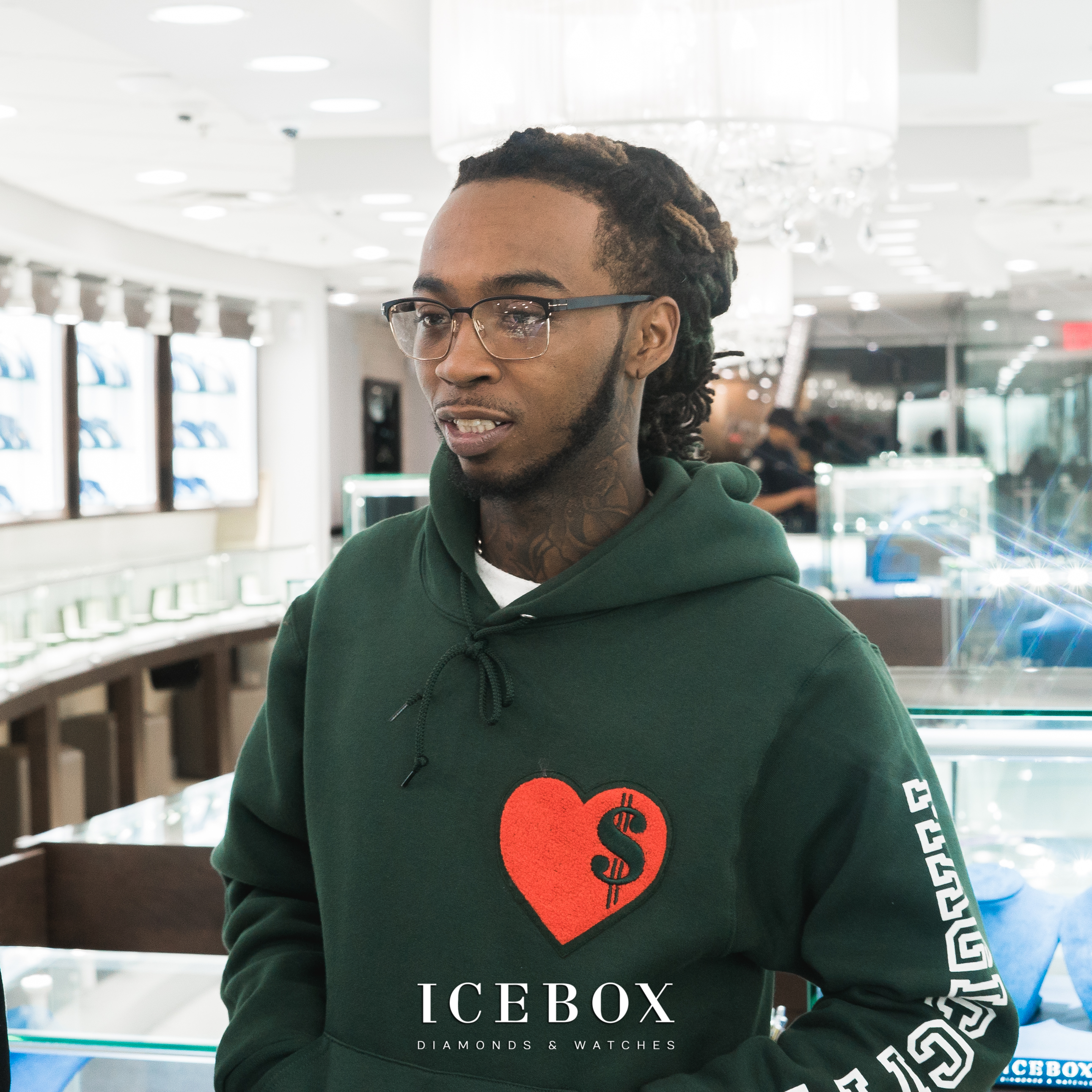 Skooly Icebox 2018